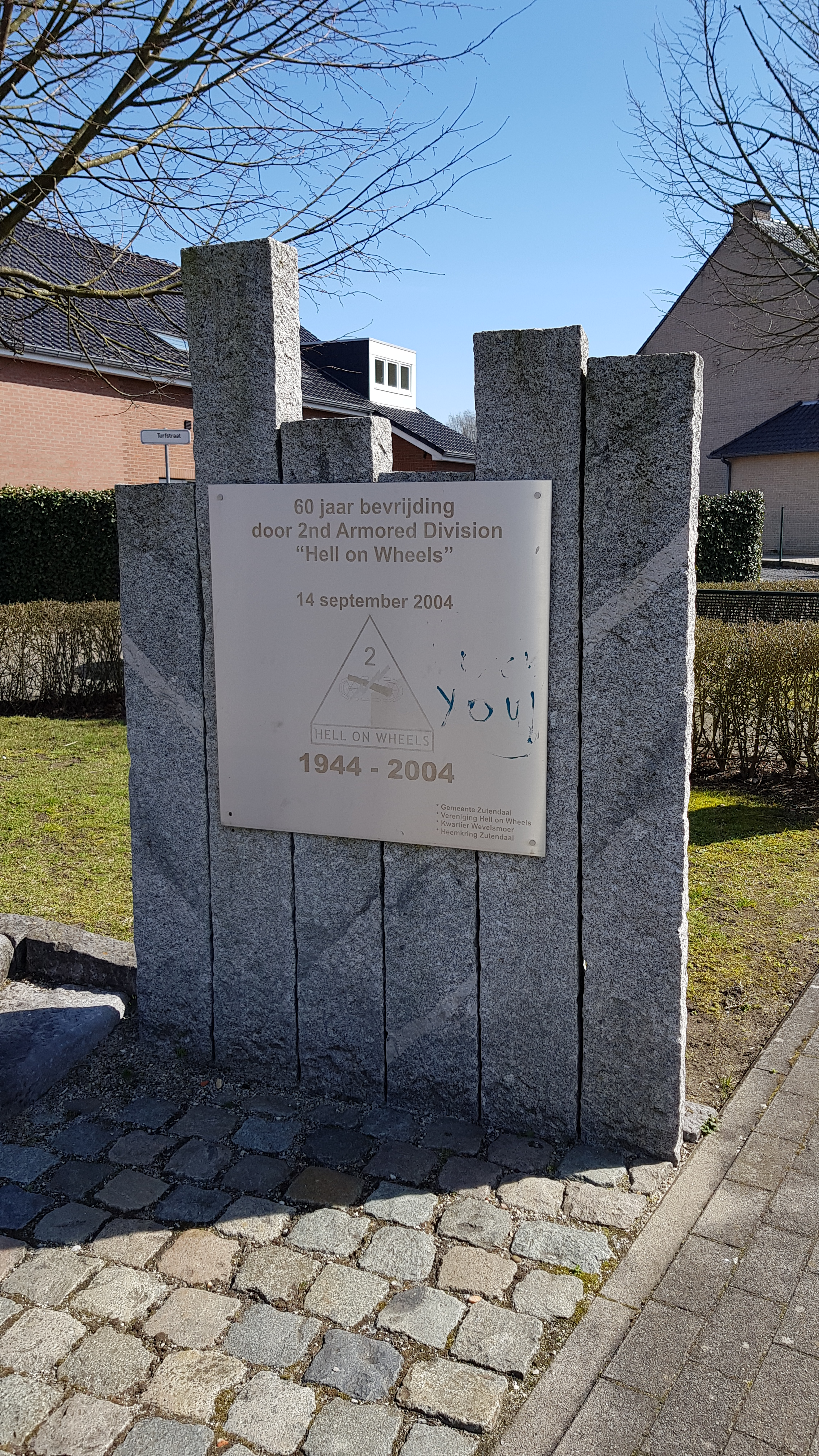 Tank memorial in Wiemesmeer, Zutendaal, Belgium